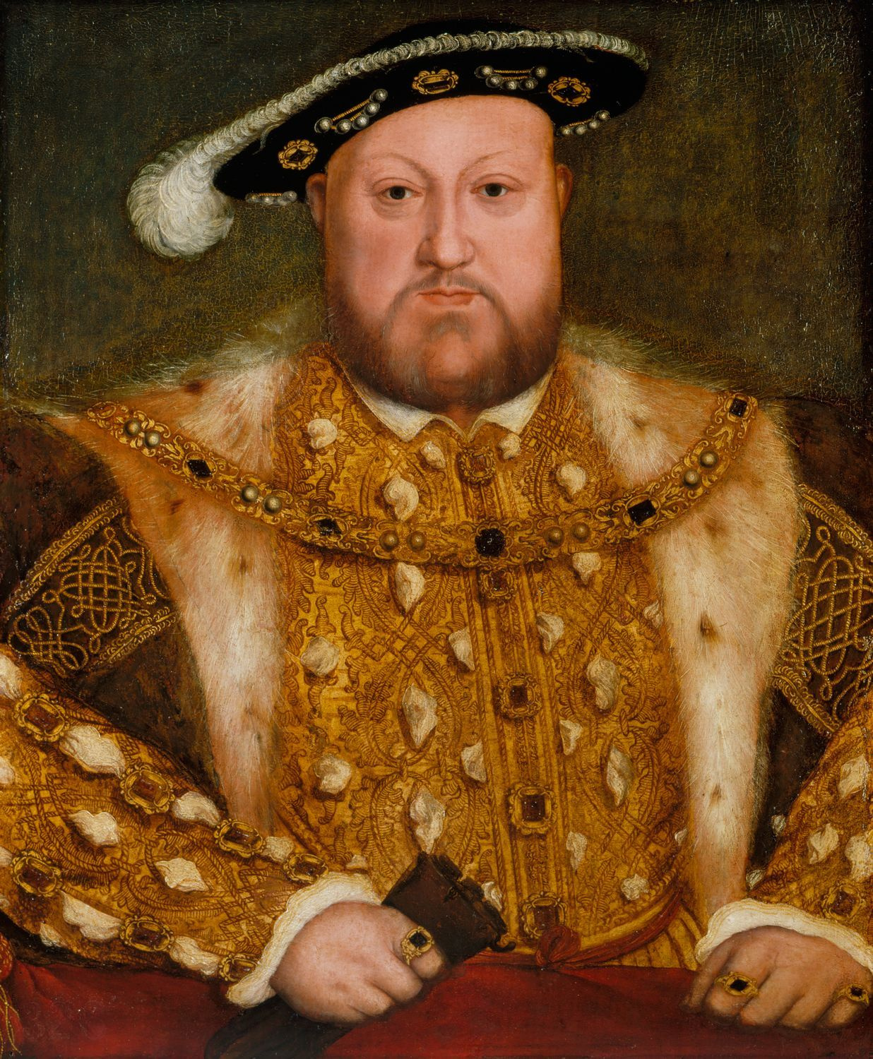 Portrait of Henry VIII. Oil on panel, 47 x 38.5 cm, Royal Collection, Windsor Castle.